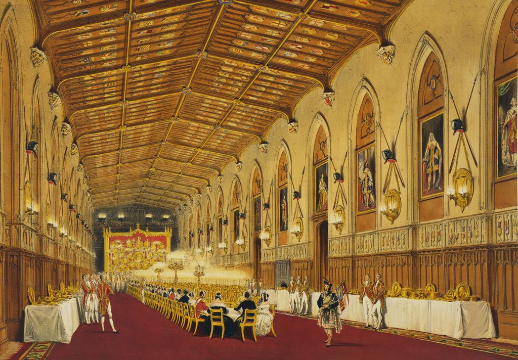 A banquet at St George's Hall, Windsor Castle, England.